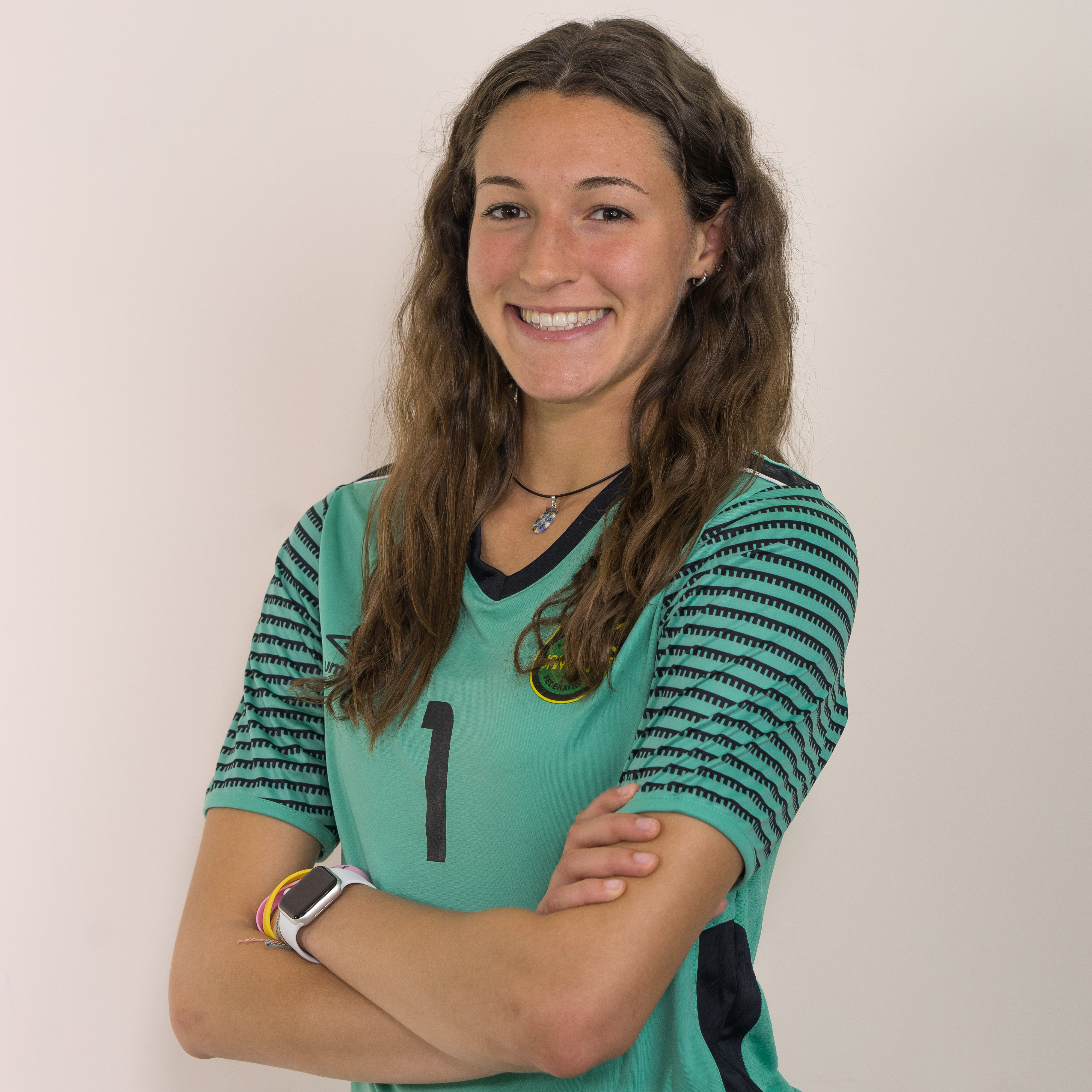 Reggae Girlz professional shot for World Cup